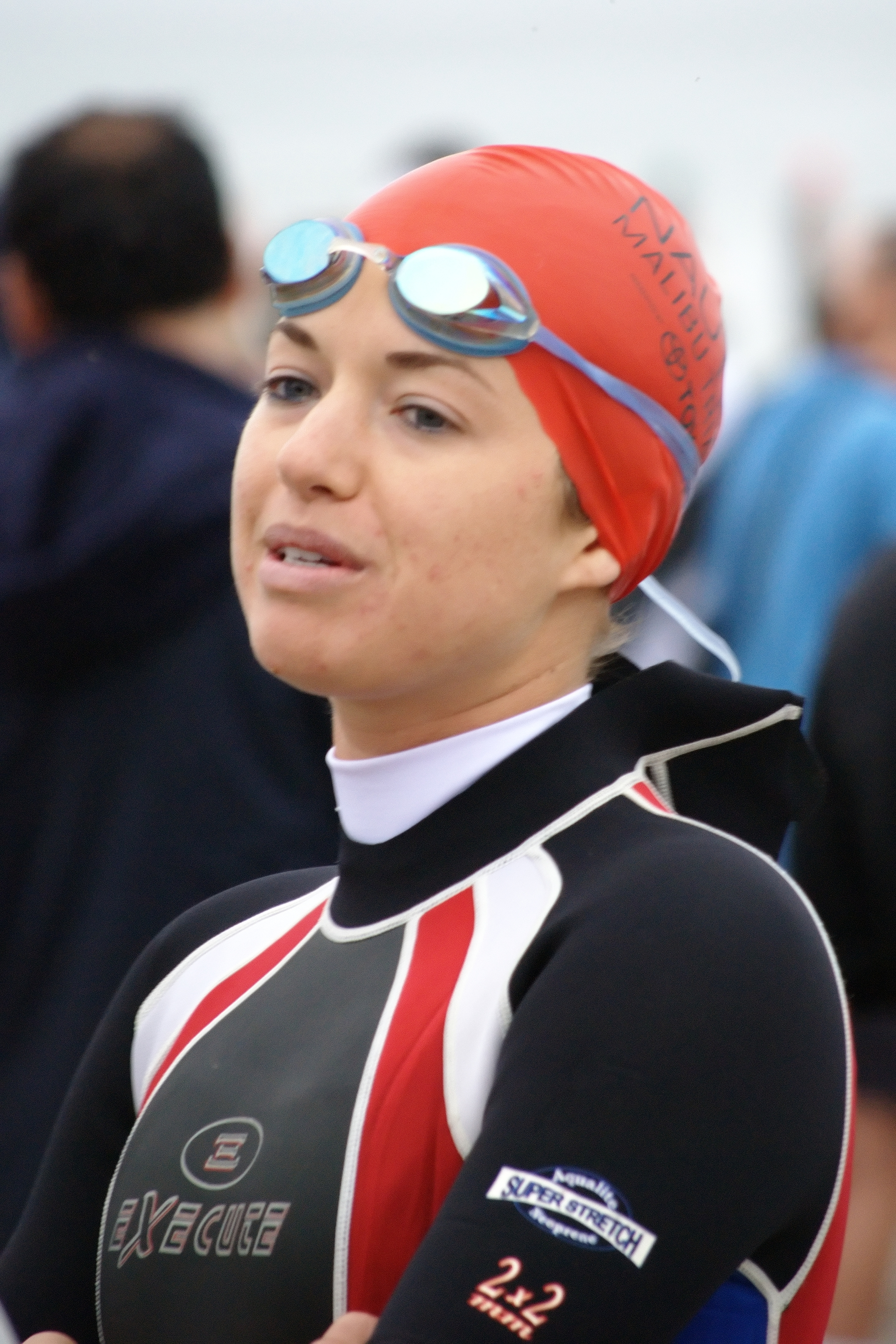 Reality TV's "Survivor" winner, Parvati Shallow, competed in the 2008 Nautica Triathlon Malibu Individual Open for females 25-29 posting a finishing time of 01:54:12.6.